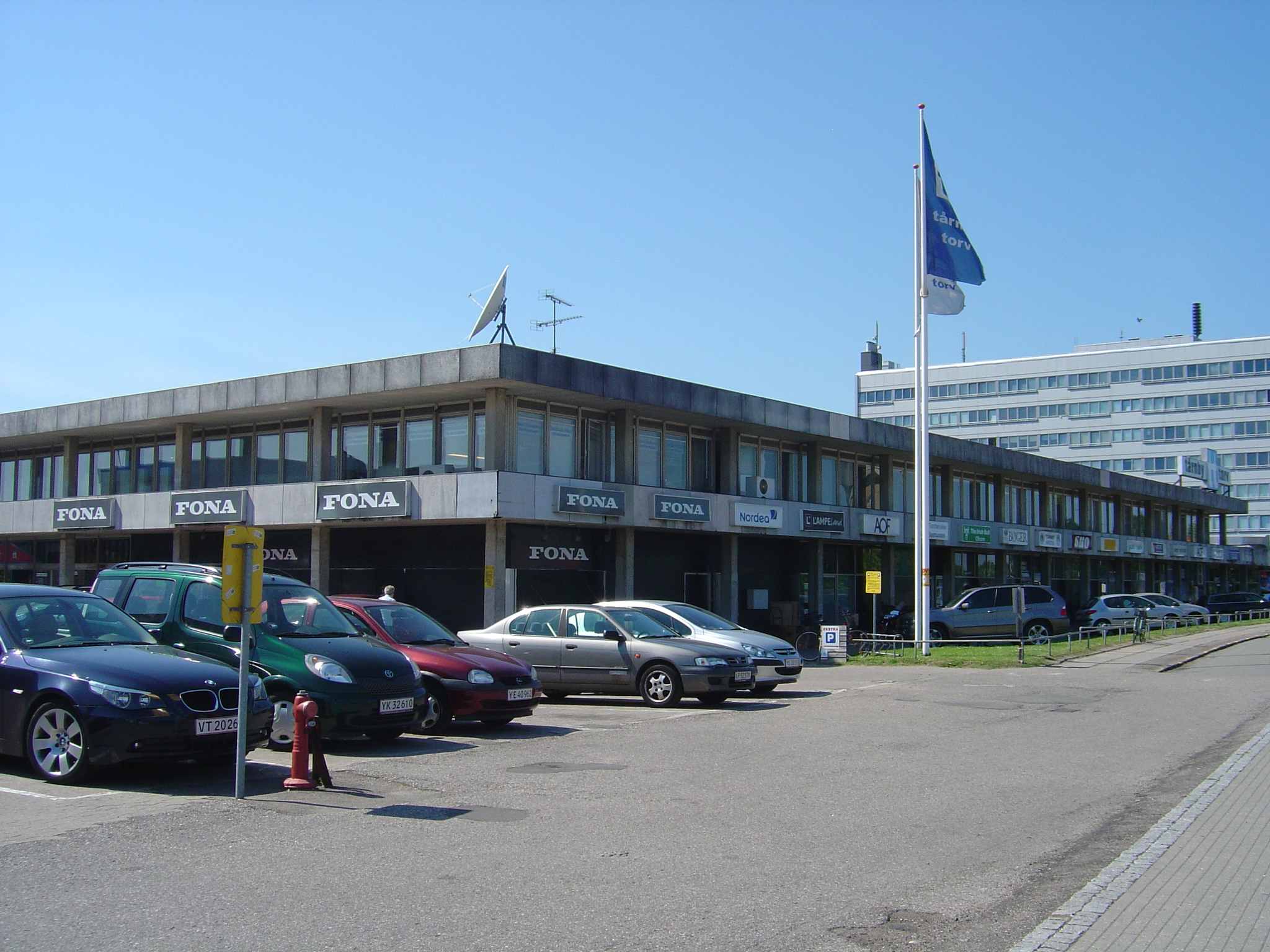 Tårnby Torv is a shopping center located in the middle of Amager, Copenhagen. Seen from southeast side, next to Englandsvej.